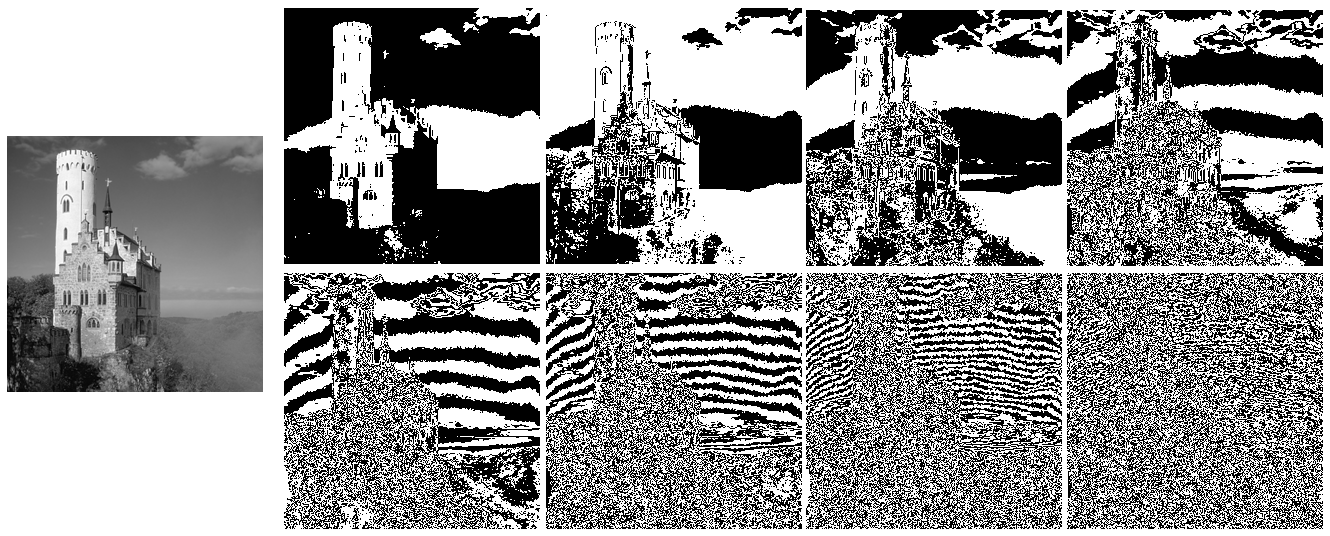 the grayscale picture on the left is the original image, the 8 binary images on the right are the bit-planes of the original one. They are 8 because the input has 8 bit/pixel. I have created them in the following way. first I have used the Image:Lichtenstein img processing test.png test image, saving it on my harddisk as "castle.png". Then I have used the following Matlab code: clear all % read image img=imread('castle.png'); % convert it to grayscale img=rgb2gray(img); img=imresize(img,0.5,'bicubic'); [x,y]=size(img); bitplanes=zeros(x,y,8); for i=1:x for j=1:y binary=de2bi(img(i,j),8,'left-msb'); for k=1:8 bitplanes(i,j,k)=binary(k); end end end imwrite(img,'original.png'); % original grayscale image imwrite(bitplanes(:,:,1),'bit1.png'); % MSB imwrite(bitplanes(:,:,2),'bit2.png'); imwrite(bitplanes(:,:,3),'bit3.png'); imwrite(bitplanes(:,:,4),'bit4.png'); imwrite(bitplanes(:,:,5),'bit5.png'); imwrite(bitplanes(:,:,6),'bit6.png'); imwrite(bitplanes(:,:,7),'bit7.png'); imwrite(bitplanes(:,:,8),'bit8.png'); % LSB then I put them all together using GIMP. I have optimized the PNG using optipng.